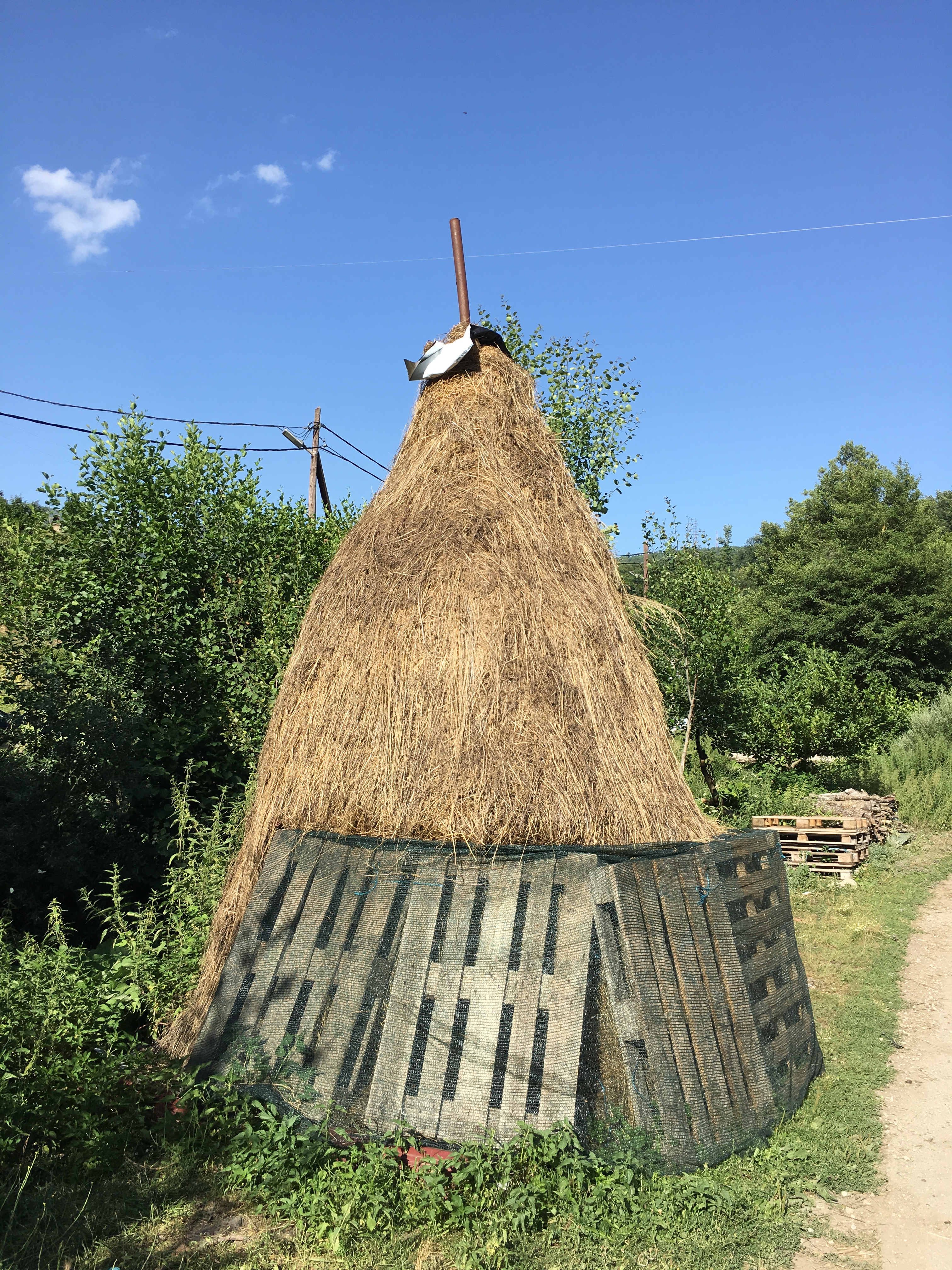 Haystack in the village of Piskupština